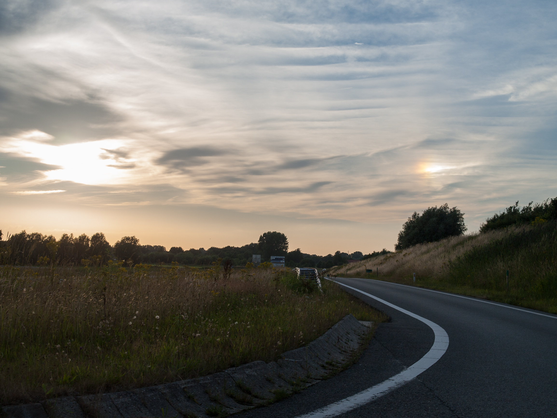 Parhelion or sun dog in summertime, caused by high clouds (Cirrostratus duplicatus undulatus in this case).